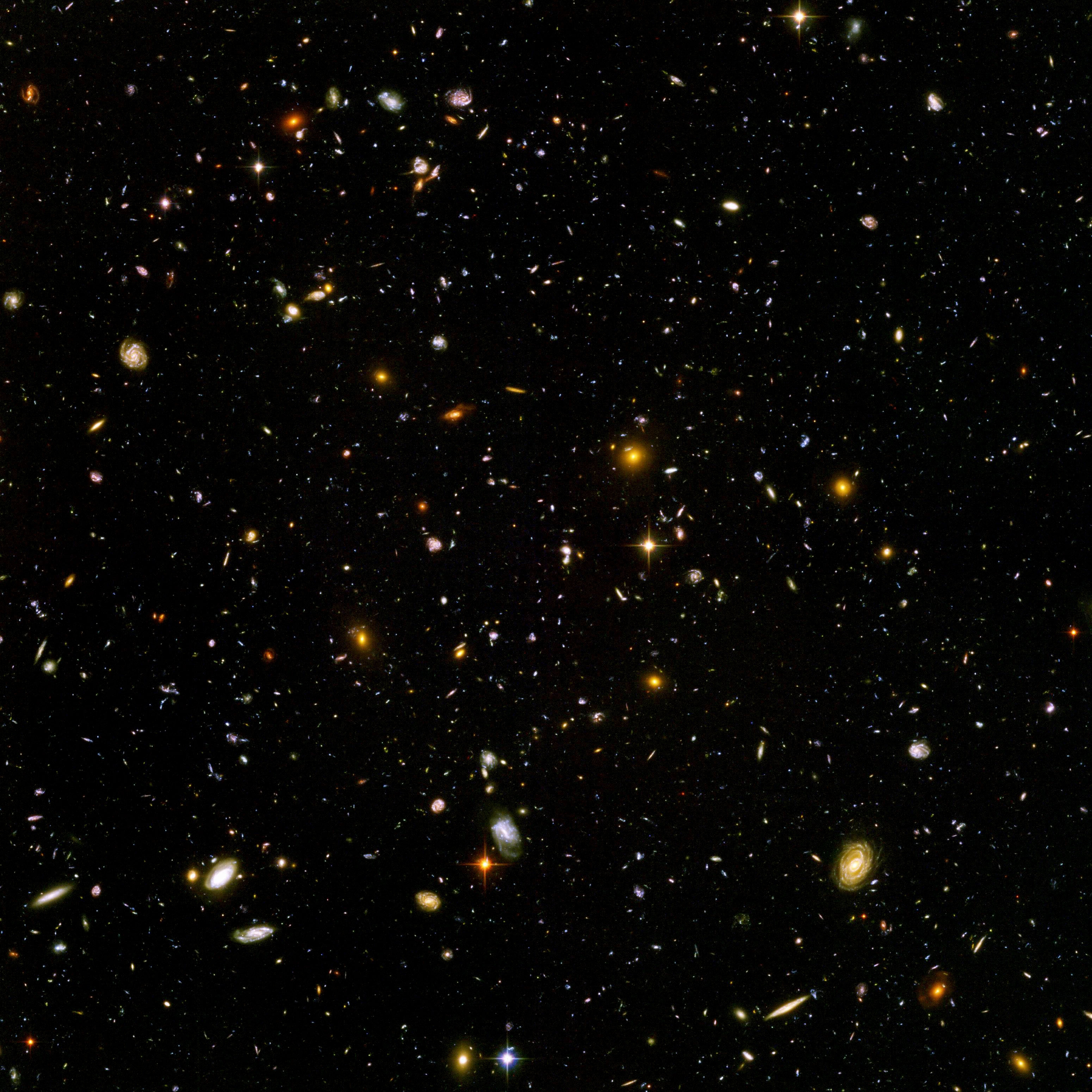 The Hubble Ultra Deep Field, is an image of a small region of space in the constellation Fornax, composited from Hubble Space Telescope data accumulated over a period from September 3, 2003 through January 16, 2004. The patch of sky in which the galaxies reside was chosen because it had a low density of bright stars in the near-field.